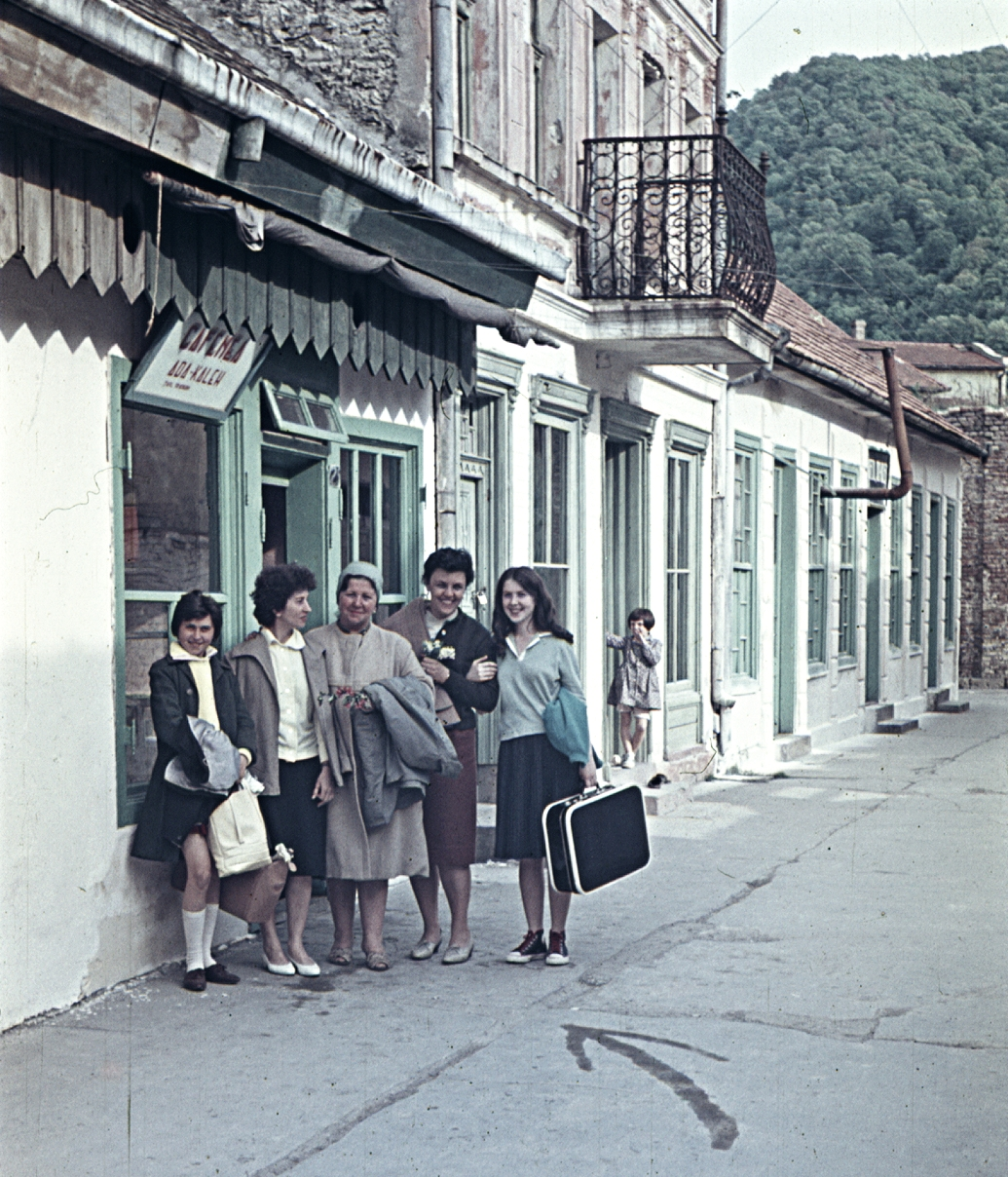 Location: Romania, Ada Kaleh Tags: tableau, colorful, travelling, balcony, girl, women, smile, suitcase, shop